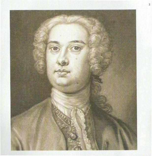 Giovanni Carestini, Italian castrato opera singer